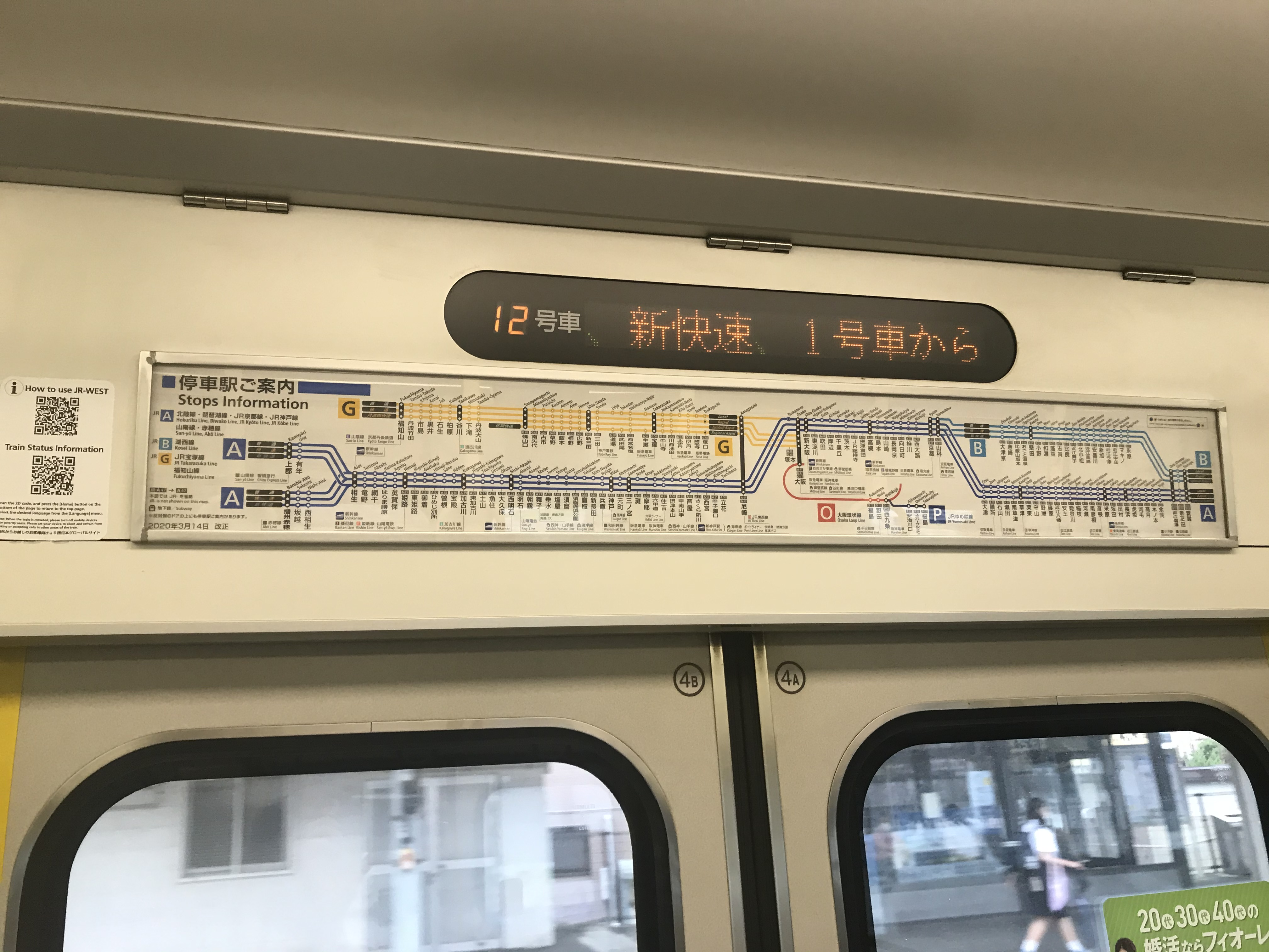 LED passenger information display on JR West 223-2000